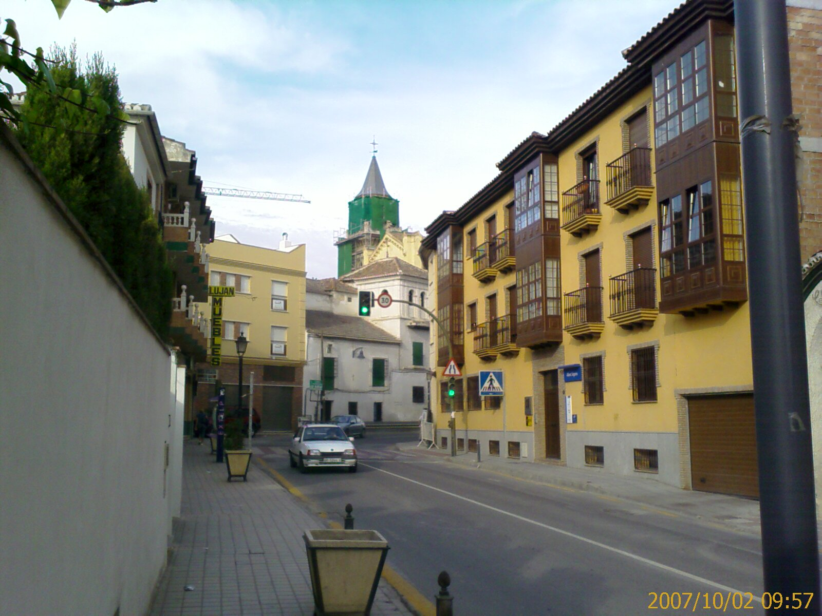 Entry to Las Gabias in direction of Granada and Armilla